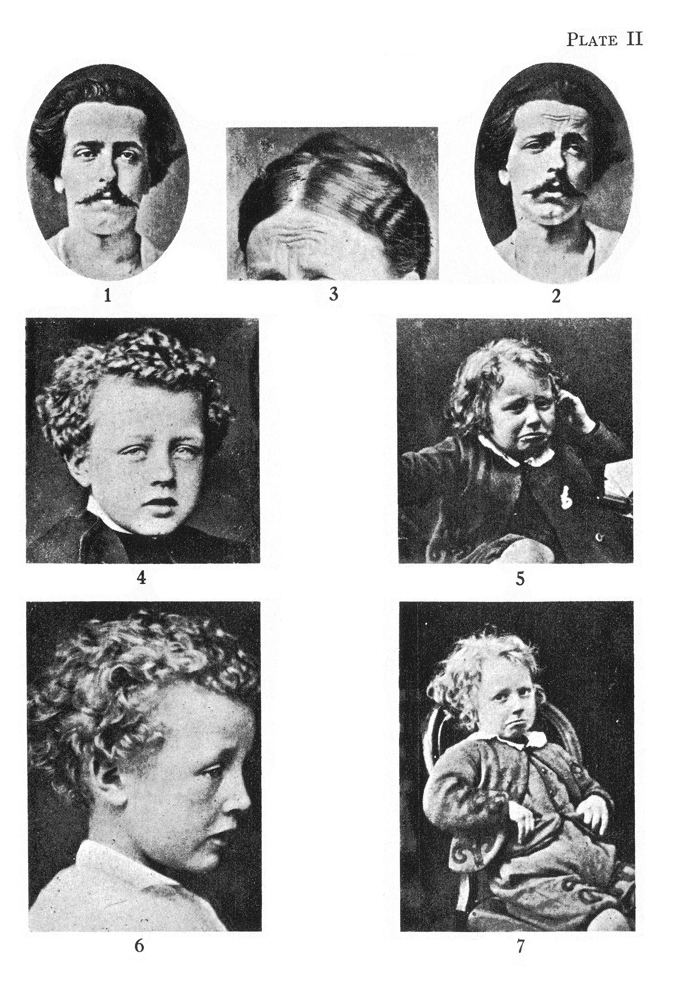 Plate II from Charles Darwin's The Expression of the Emotions in Man and Animals. From Chapter VII: LOW SPIRITS, ANXIETY, GRIEF, DEJECTION, DESPAIR.